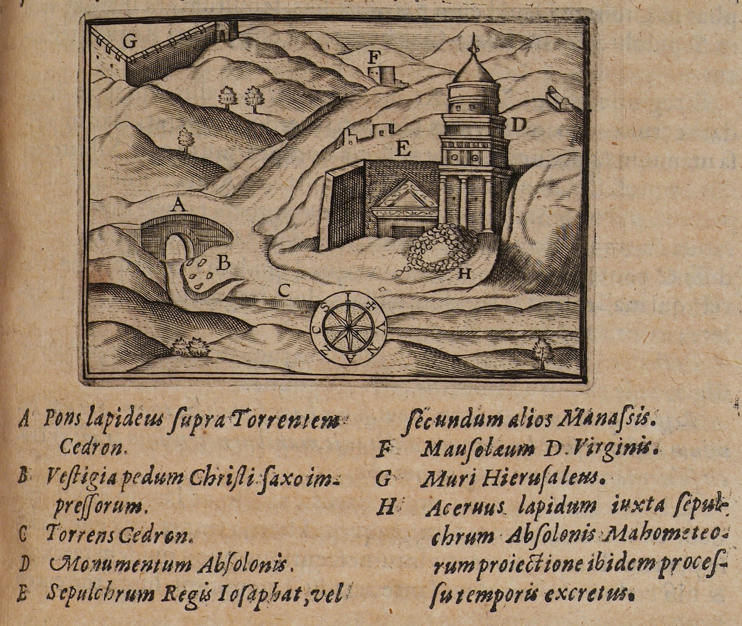 Johannes Van Cootwijck. Itinerarium Hierosolymitanum et Syriacum, Antwerp, Ηieronymus Verdussen, 1619.